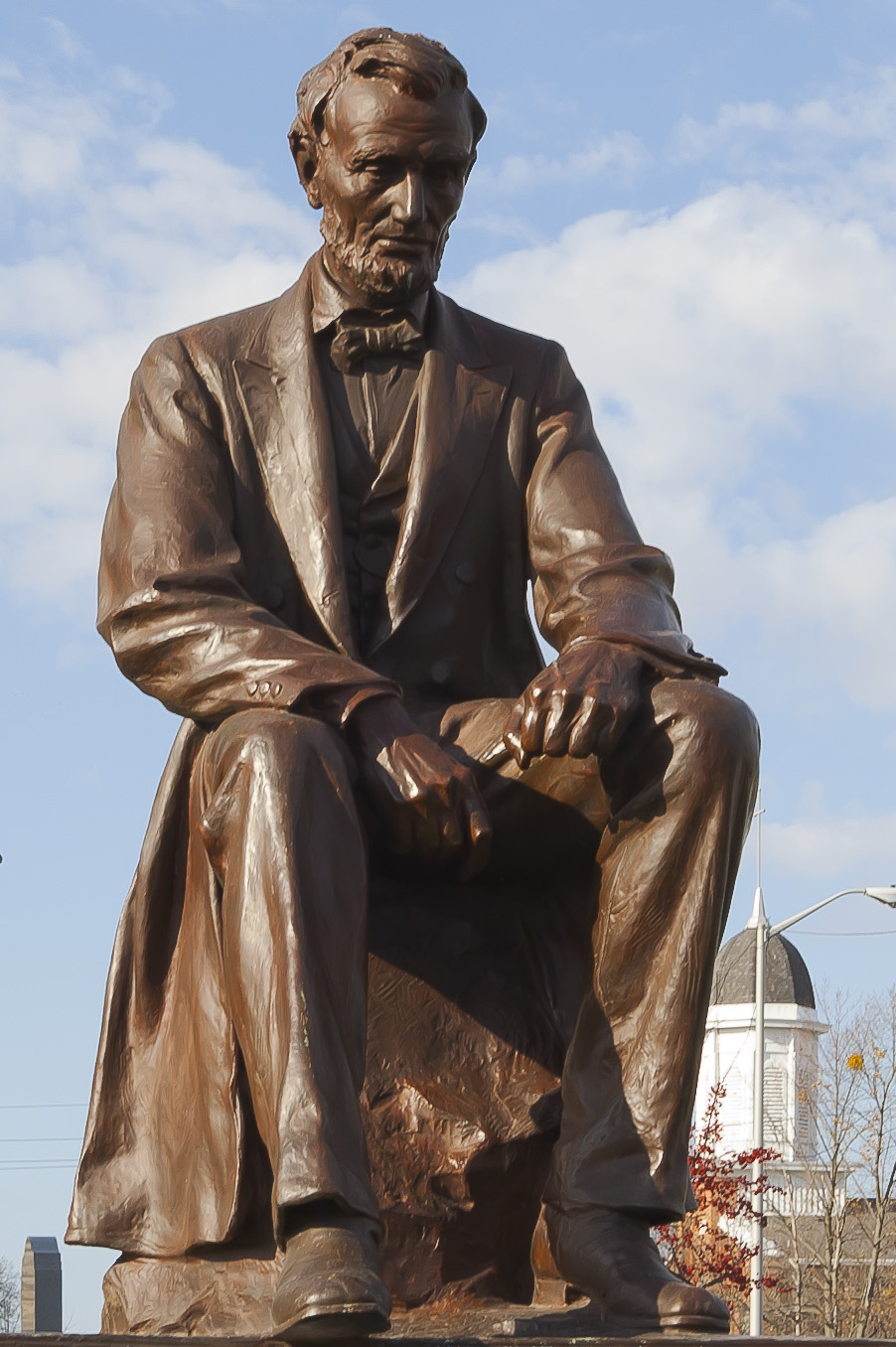 Lincoln Statue, Wabash, Indiana, USA